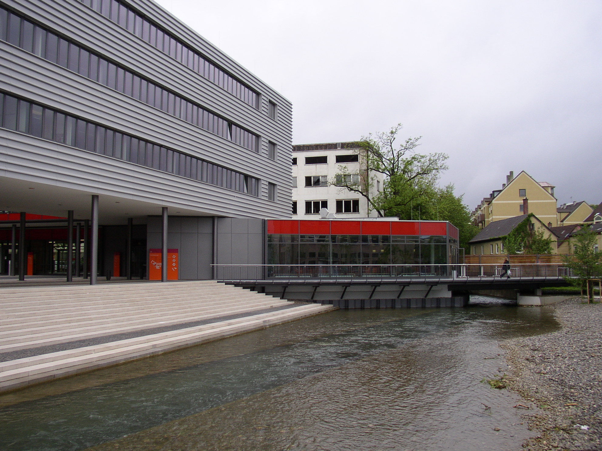 Building H of Hochschule Augsburg (University of Applied Sciences) with cafeteria (flat outbuilding)